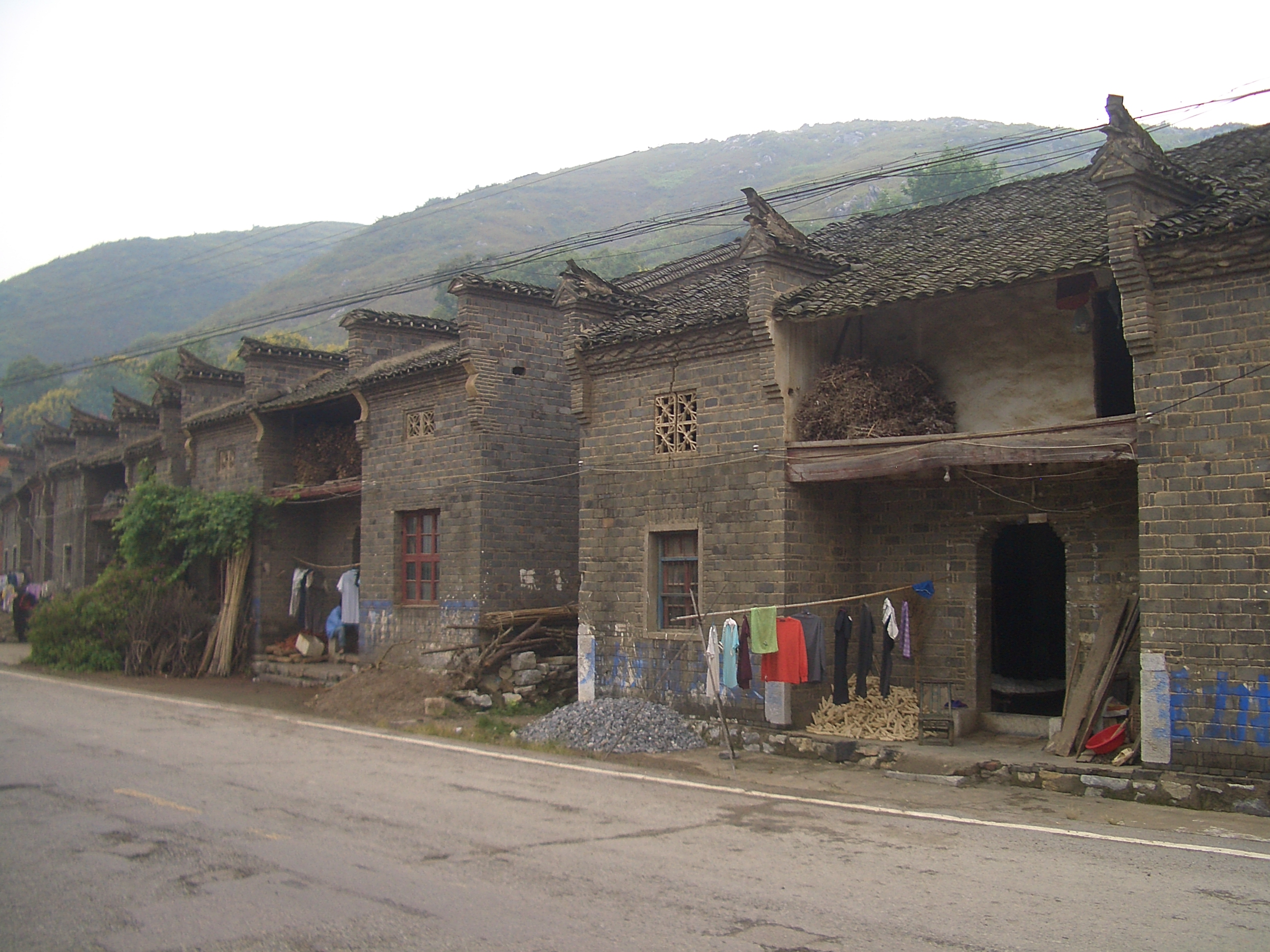 Traditional brick houses in a village on Hwy G106/G316 in Yangxin County, a few km north of the Fushui (富水) River crossing (between Longgang and Futu).